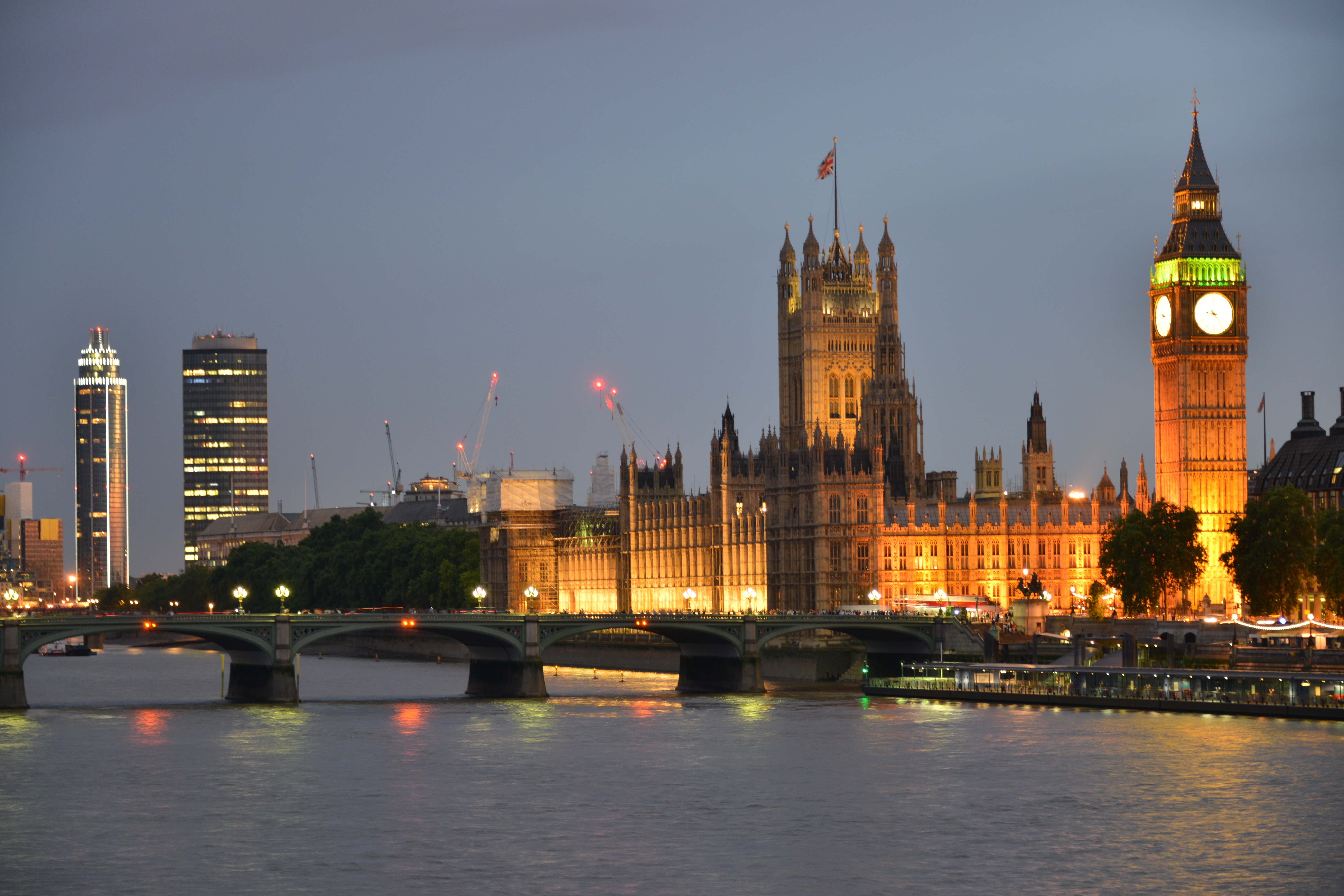 House of Parliment, Westminster